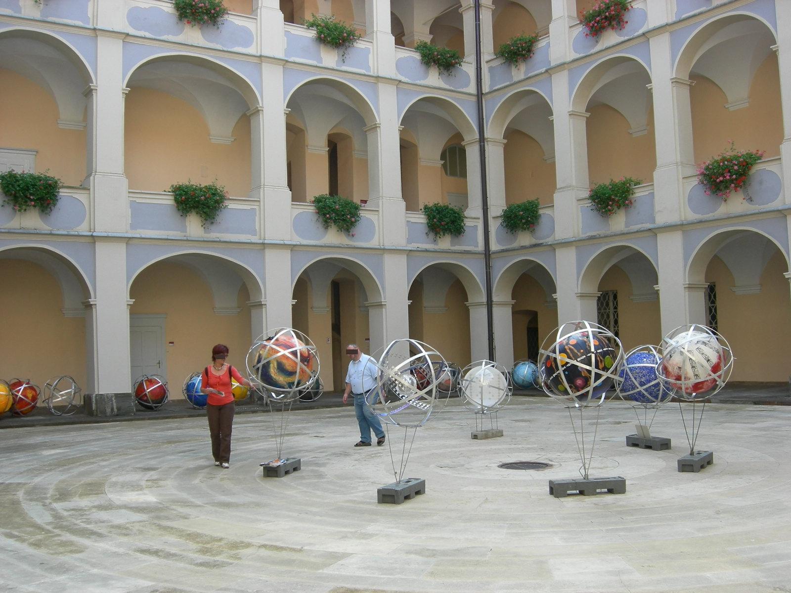 Rolling Stars and Planets in Piber Castle, Styria, Austria 2009